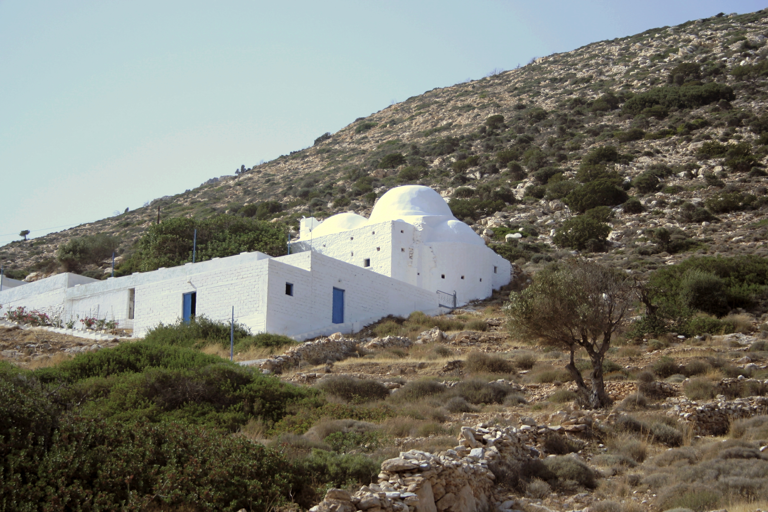 Agia Theodoti. The church with monastery and ancient remnants. (Instead of finding the plate with a calendar that contains "Homer month", In Archaeological Museum of Ios.)